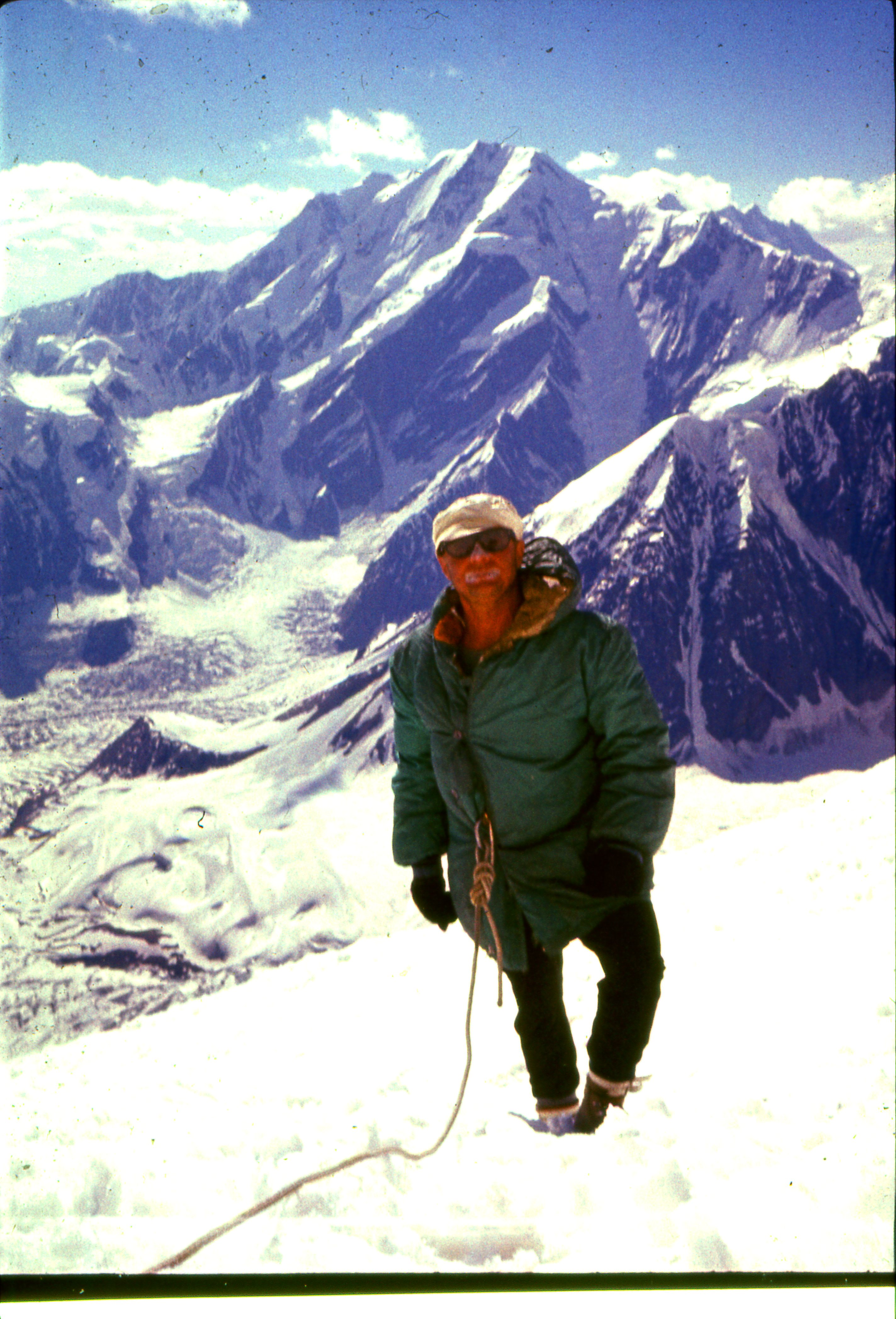 A.A. Karatsuba in Pamir mountains